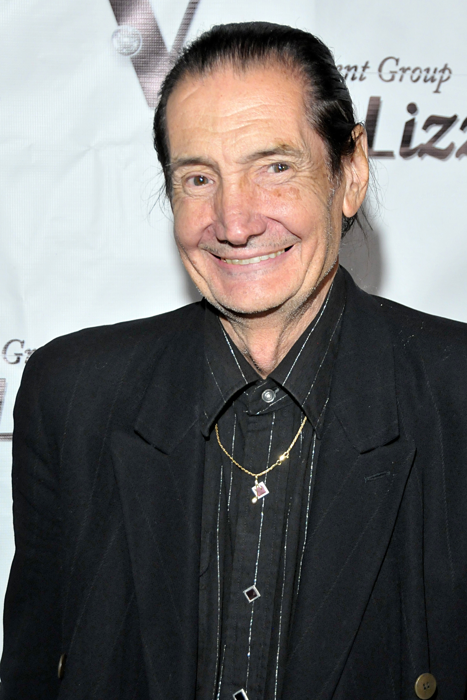 Richard Michaels, Los Angeles, California on October 3, 2015 - Photo by Glenn Frnacis of